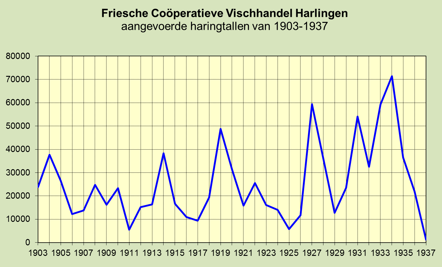 Precariousness of herring hauls (1 tal = 200 herrings)